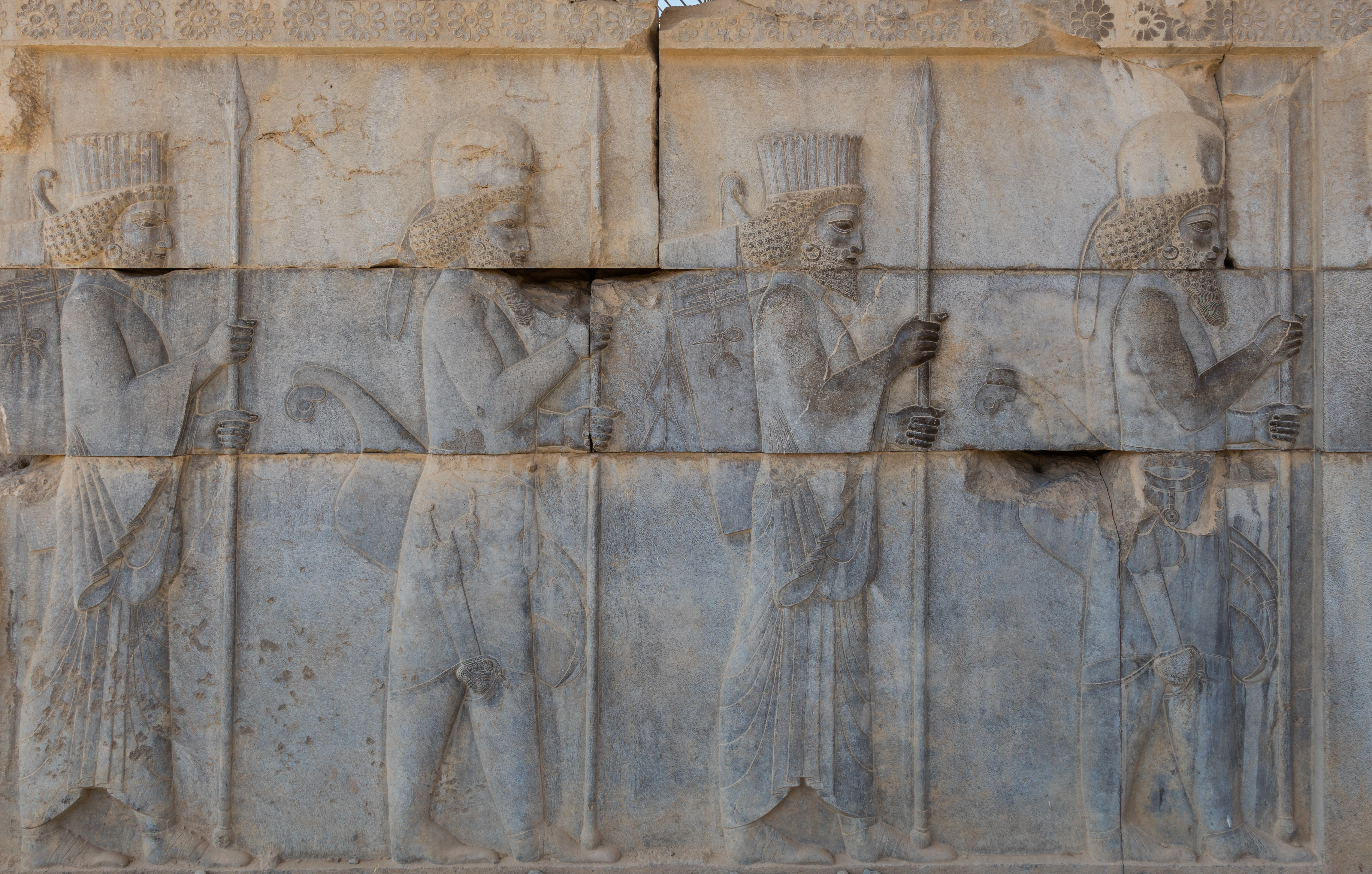 Persepolis, Iran